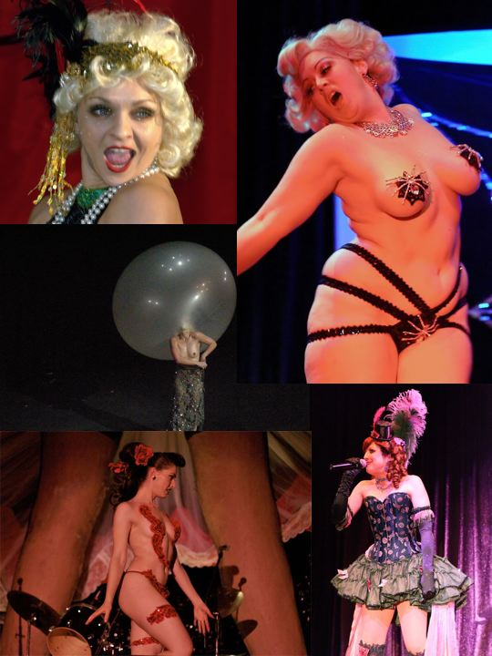 Burlesque star Julie Atlas Muz at the 2009 HOWL! Festival in New York City's East Village. Photographer's blog post about the photo and event. Julie Atlas Muz performs her famous "Moon River" piece, a striptease in which she dances with a giant balloon and then completely encases herself in the balloon, which she bursts at the end of the piece. Part of Coney Island Apocalypse (properly The Four Strippers of the Apocalypse, but retitled for Bumbershoot, apparently due to an odd piece of prudery), featuring several avant garde New York burlesque performers at the Bagley Wright theater during Bumbershoot 2008, Seattle Center, Seattle, Washington. Suzanne Ramsey (Kitten on the Keys) at Miss Exotic World, 2006.